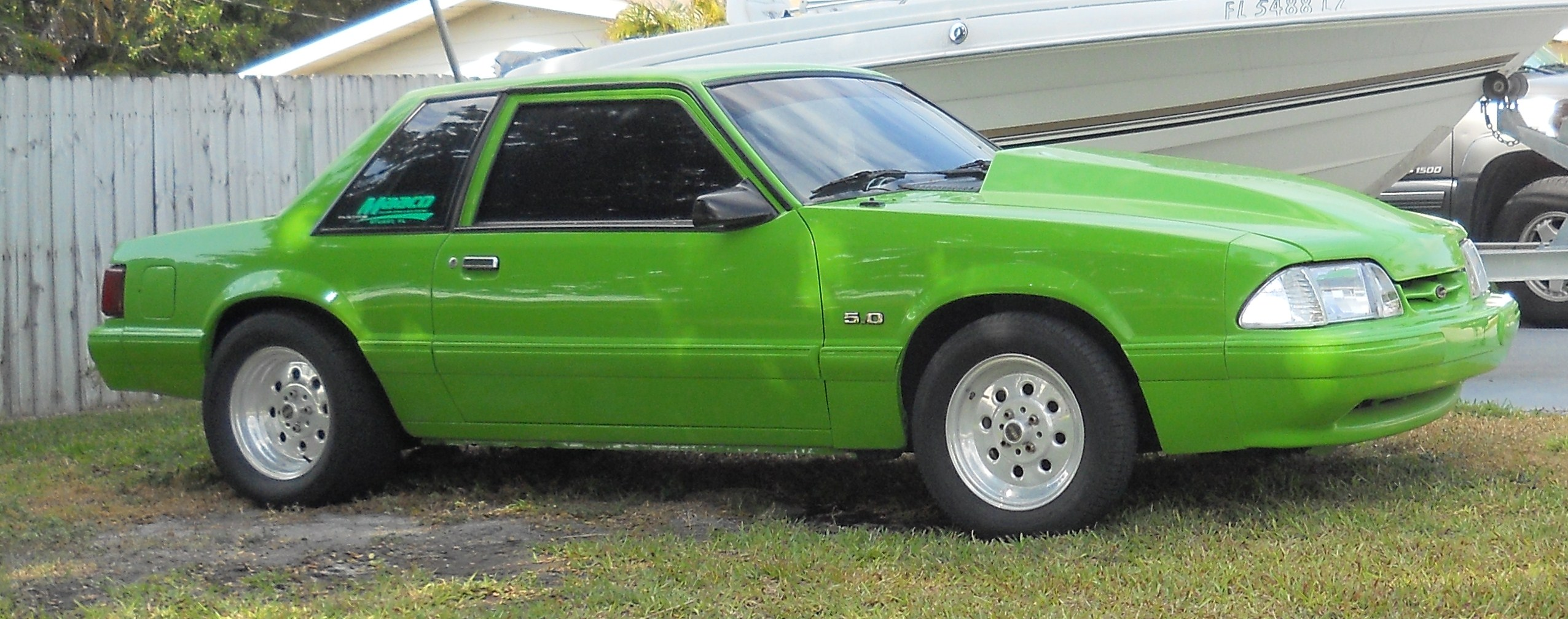 Ex Florida Highway Patrol Ford Mustang SSP (Special Service Package) after repainting